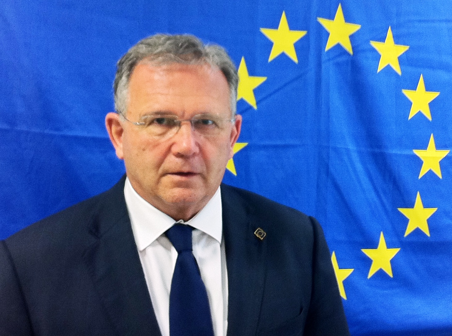 Rogelio Pérez-Bustamante